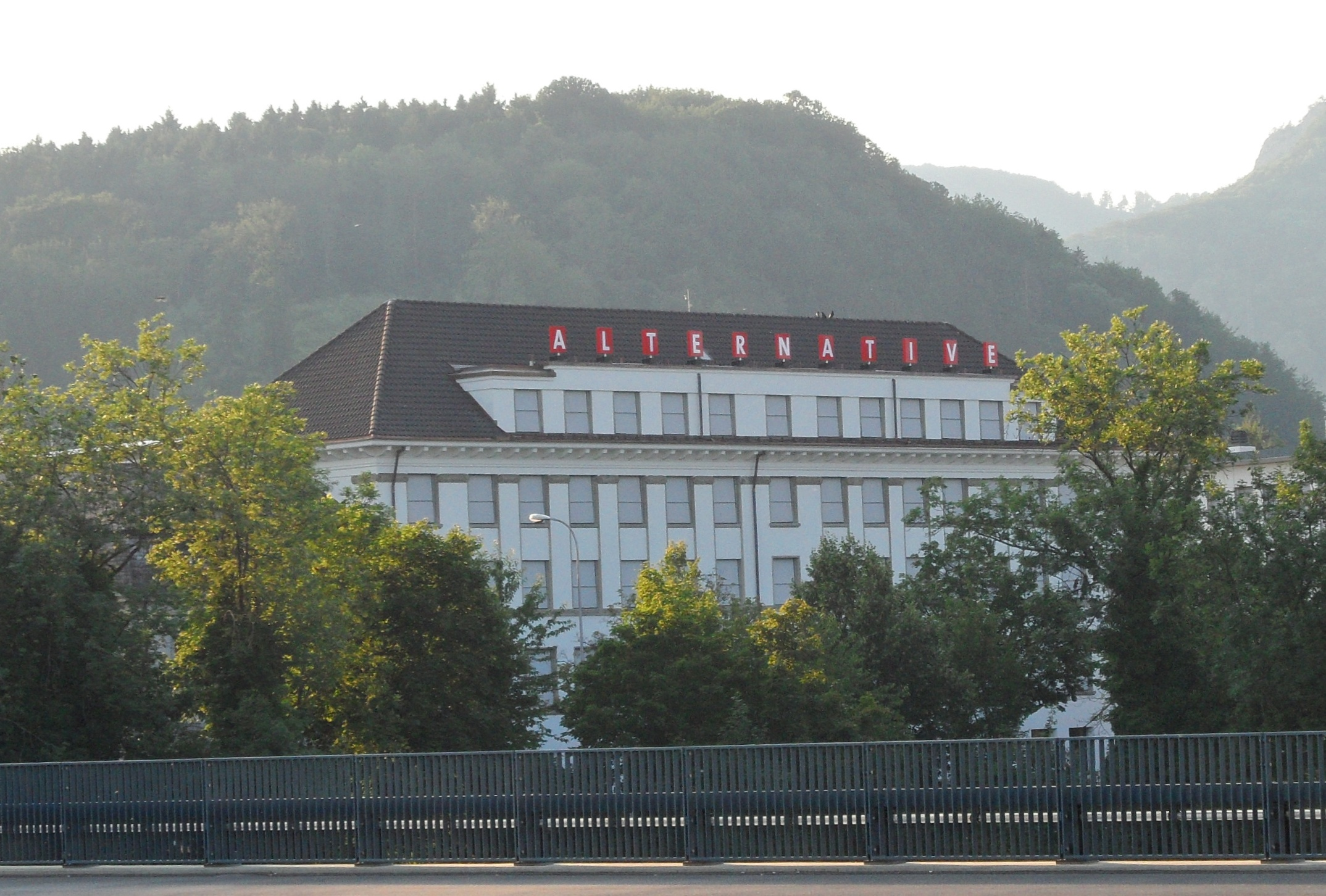 Headquarters of the Alternative Bank Switzerland in Olten, former headquarters of the Walter Verlag publishing company.